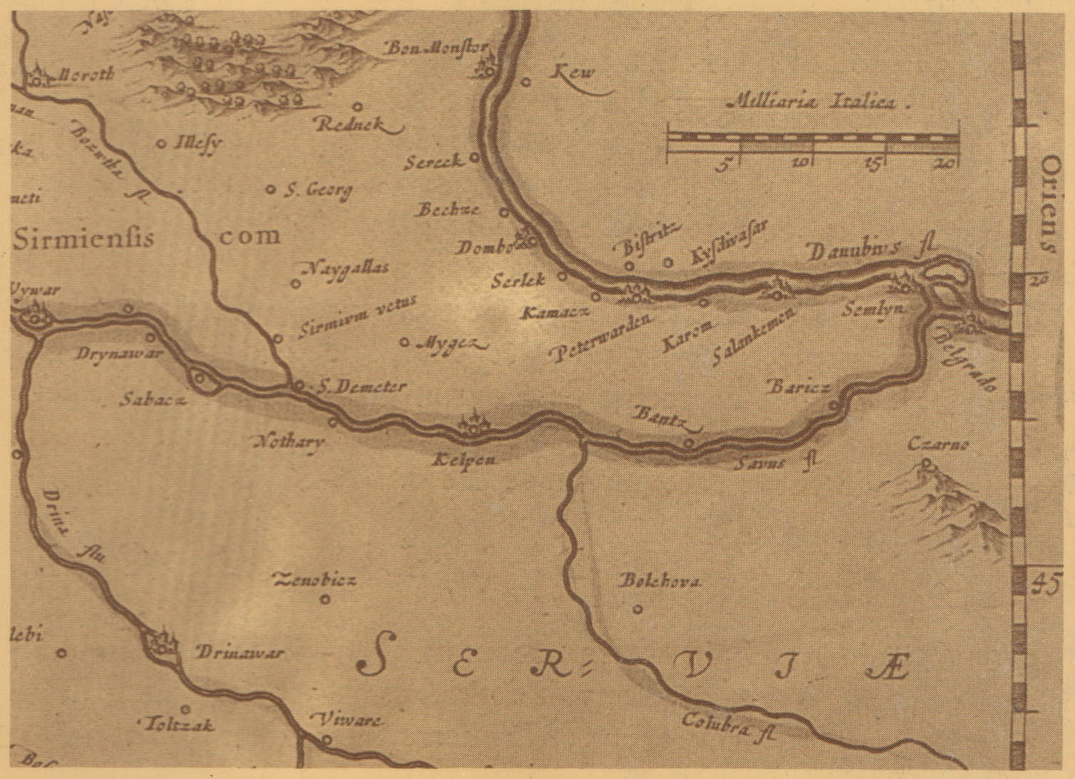 16th century map of Syrmia and neighbouring areas showing Petrovaradin (Peterwarden) and settlement named Bistrica (Bistritz) on the opposite side of Danube.